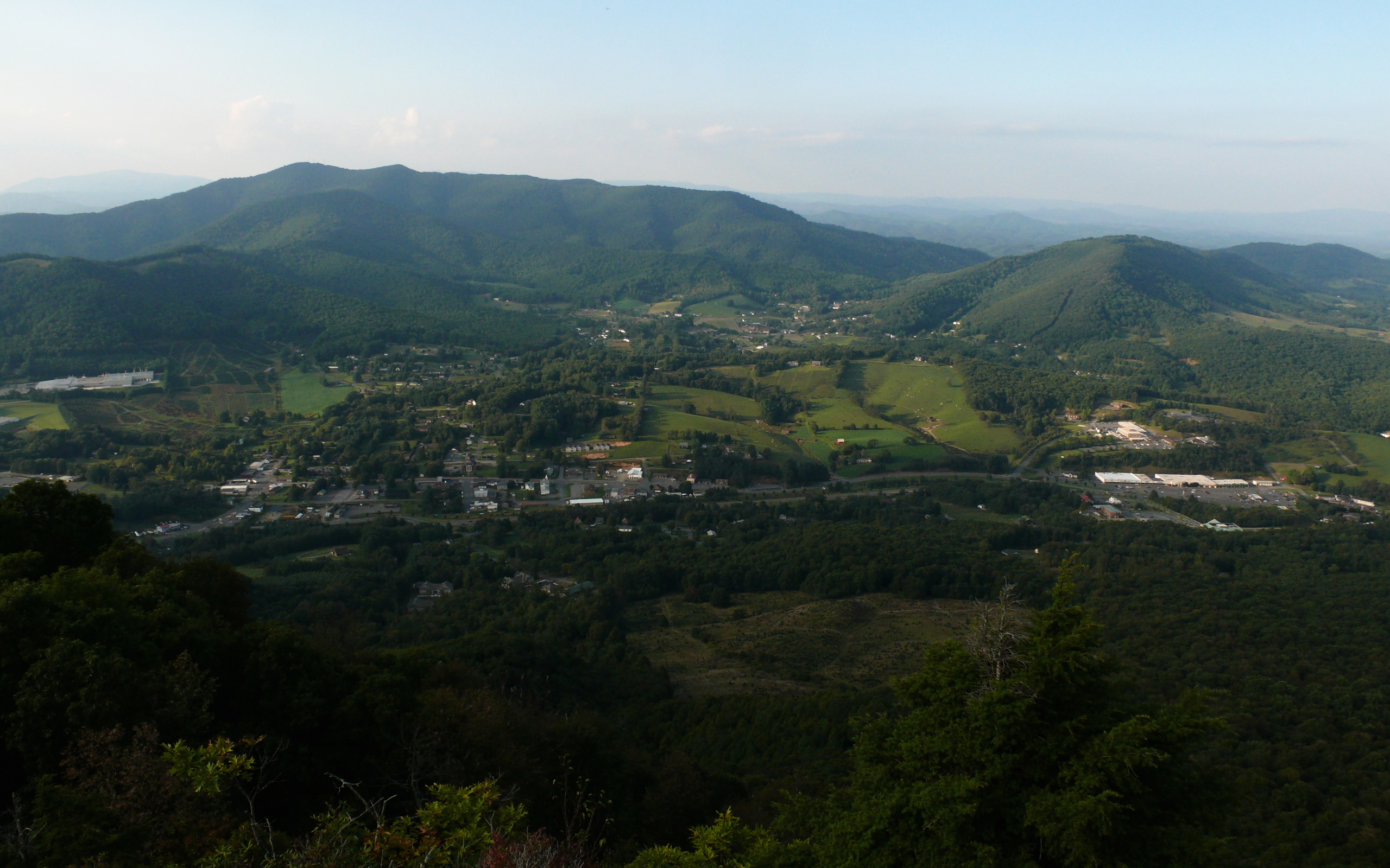 Looking north across the town of Jefferson and the southern flank of Phoenix Mountain, as seen from the upper overlook at Mount Jefferson State Natural Area.Photo taken with a Panasonic Lumix DMC-FZ50 in Ashe County, NC, USA.